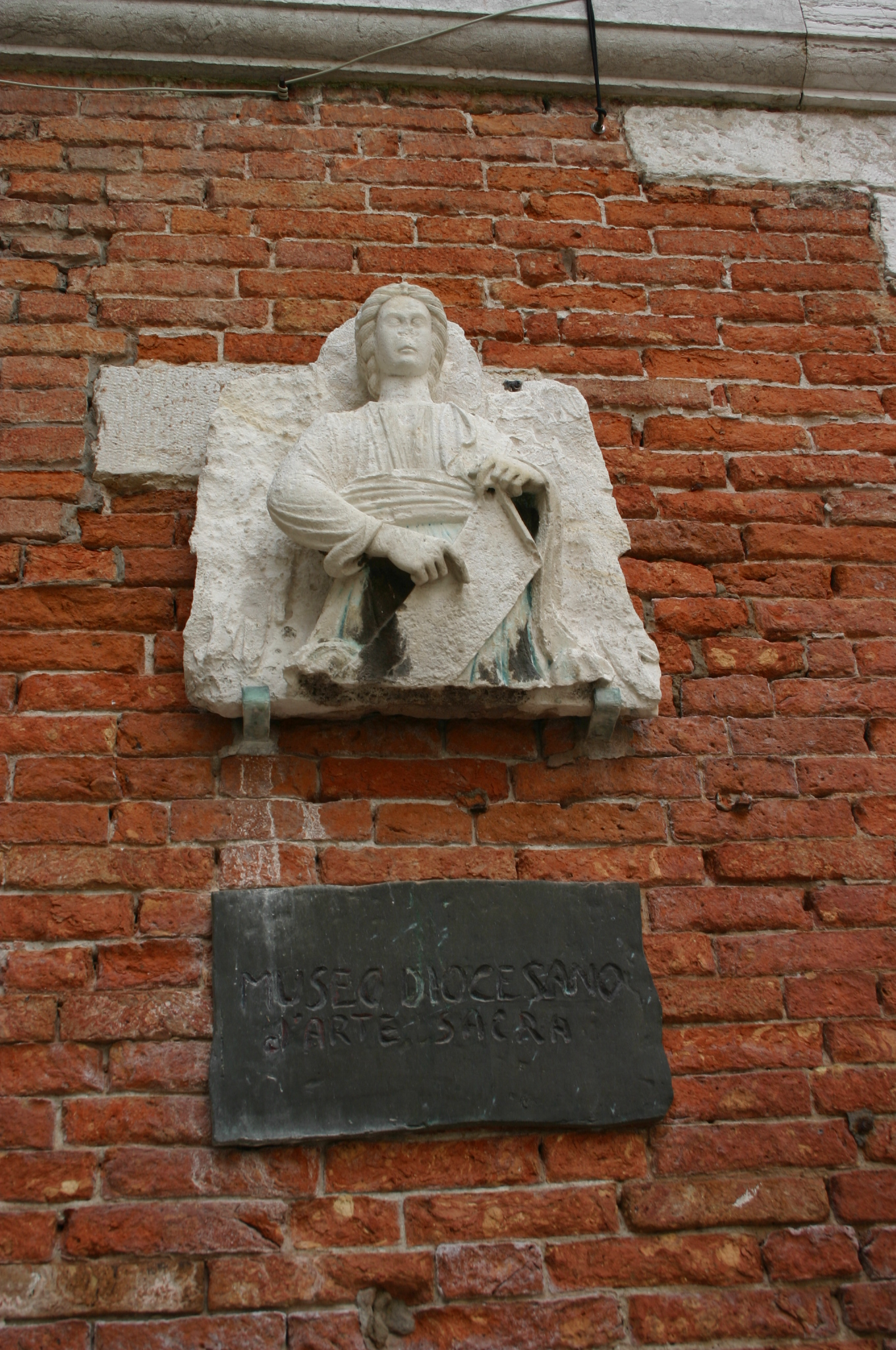 Venice, the Diocesan museum of sacred art, housed in the former monastery of Sant'Apollonia. Picture by Giovanni Dall'Orto, August 8, 2007.